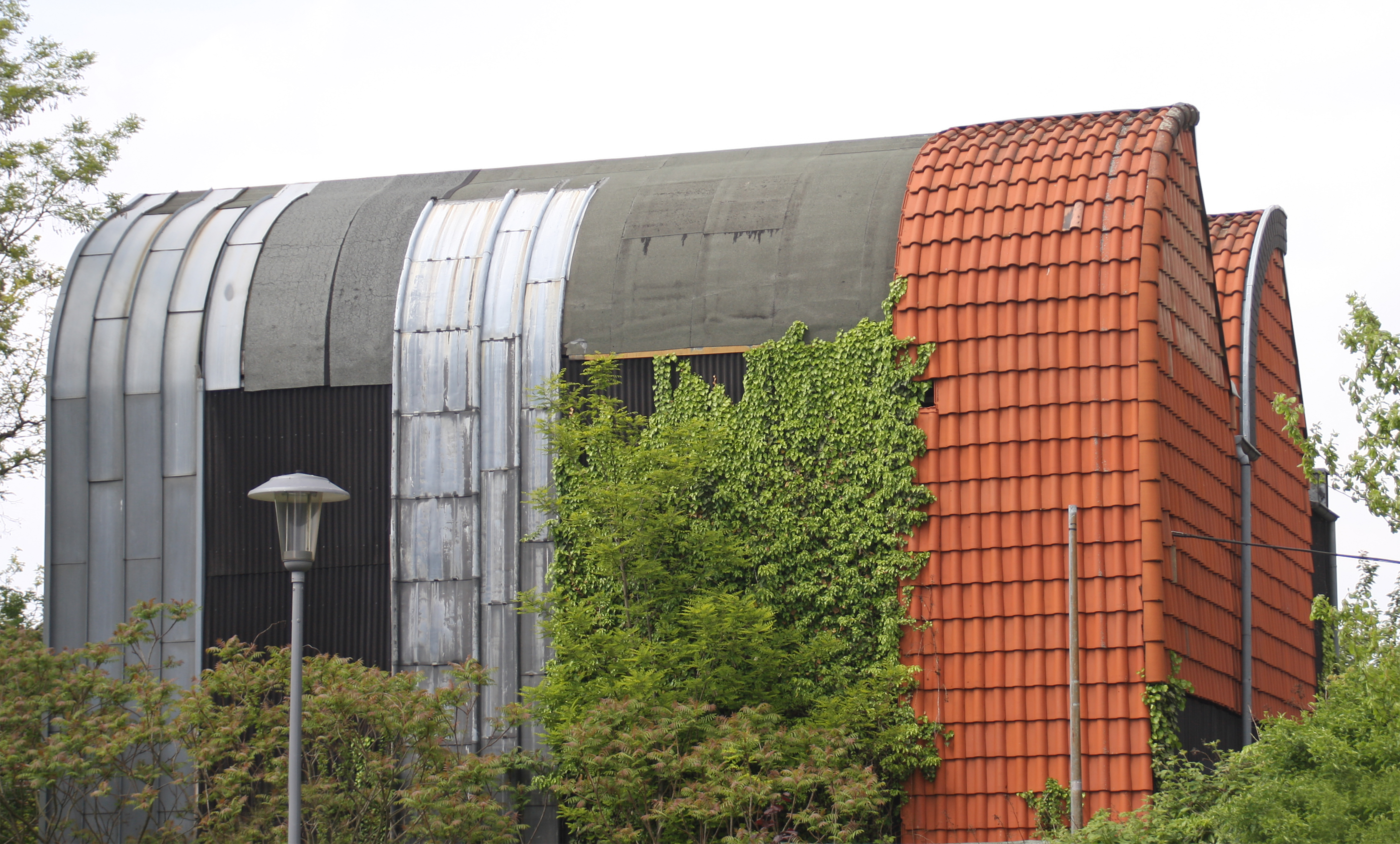 Simultanhalle („simultaneous hall“) in Cologne, originally built as test building for the Museum Ludwig in Cologne. Since 1986 also used as exhibition space